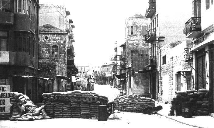 Abandoned Arab positions during the Battle of Haifa (1948)